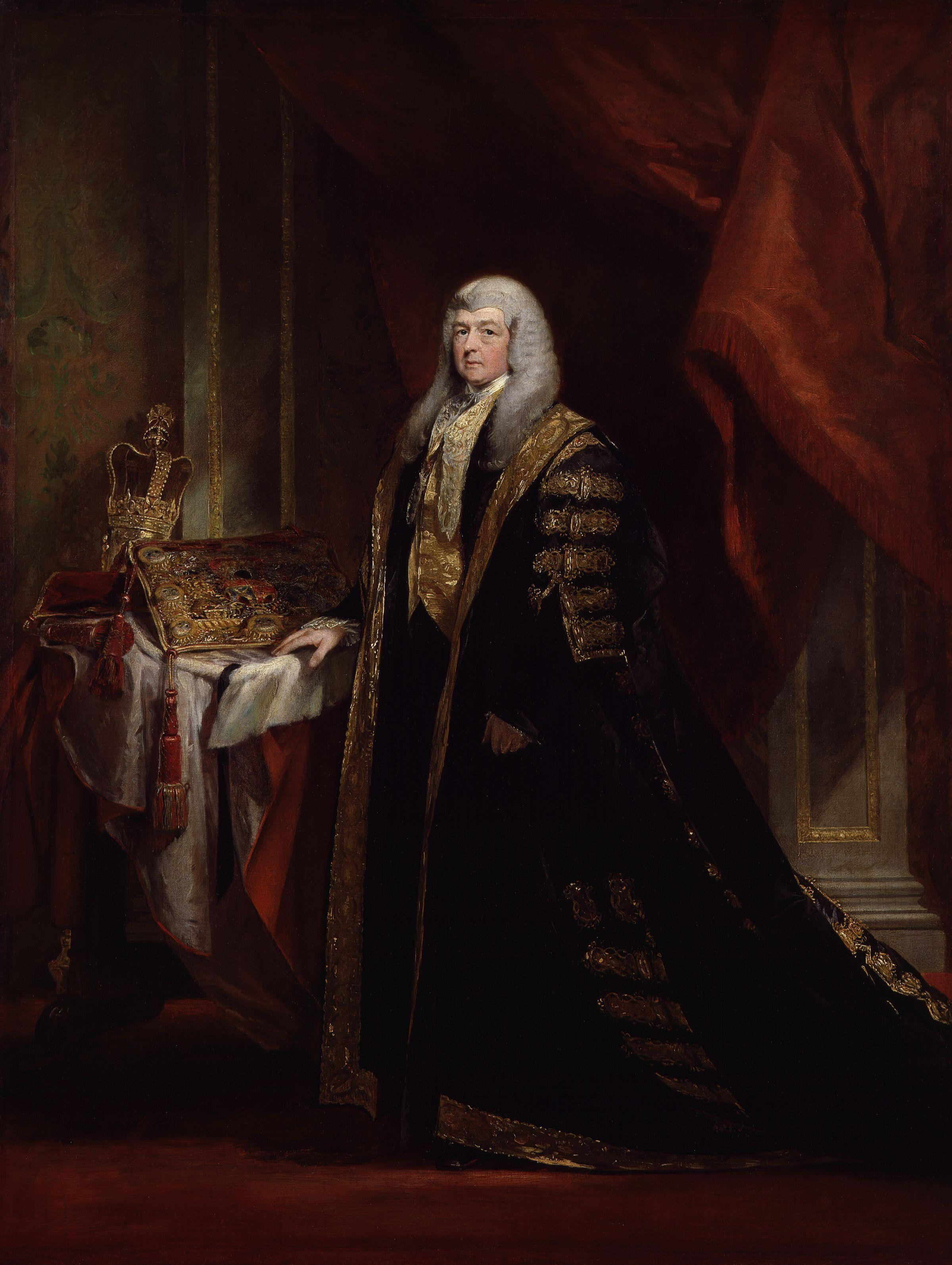 All images in this batch have been confirmed as author died before 1939 according to the official death date listed by the NPG.